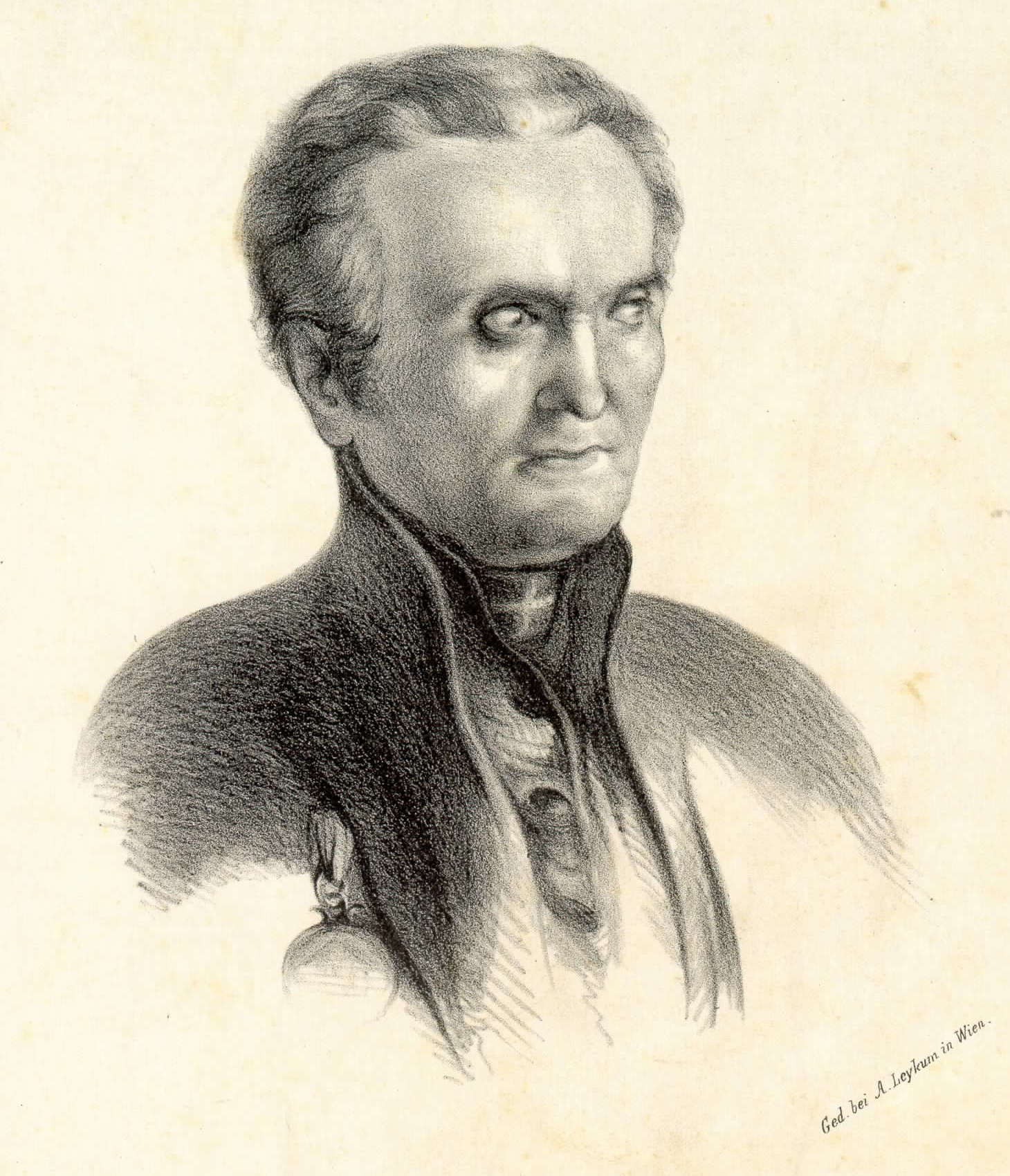 Franc Hladnik (1776-1844), slovene priest and botanist.